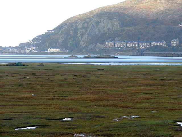 A view across the saltmarsh towards Barmouth The rocks in the centre of the view in the estuary are Cerrig-y-gorllwyn which are in the square. Barmouth Railway Bridge is on the far right and the main part of the town is on the left. The hills above Barmouth are benefiting from some winter sunshine but it generally didn't favour the south of the Mawddach Estuary for the whole day.